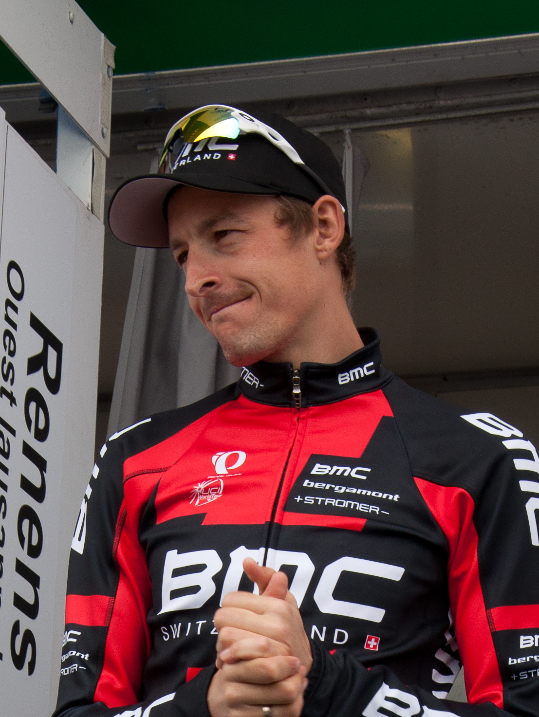 Podium ceremony of Tour de Romandie 2013's stage 5, in Geneva, Switzerland. Marcus Burghardt, the winner of the final pink jersey for the King of the Mountains classification, entering on the stage.